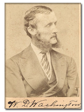 William D. Washington, American Artist, ca. 1869. Virginia Military Institute